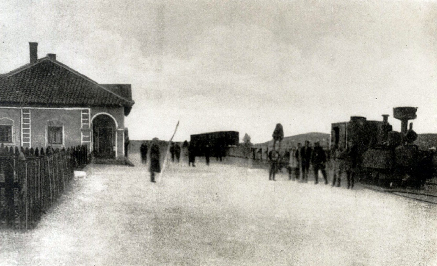 A photo of the railway station in Ohrid and at that time the only train in the city, fond 'Nikola German'. This media file is produced by Wikipedian in Residence in Category:Wikipedian in Residence at DARM in 2017.